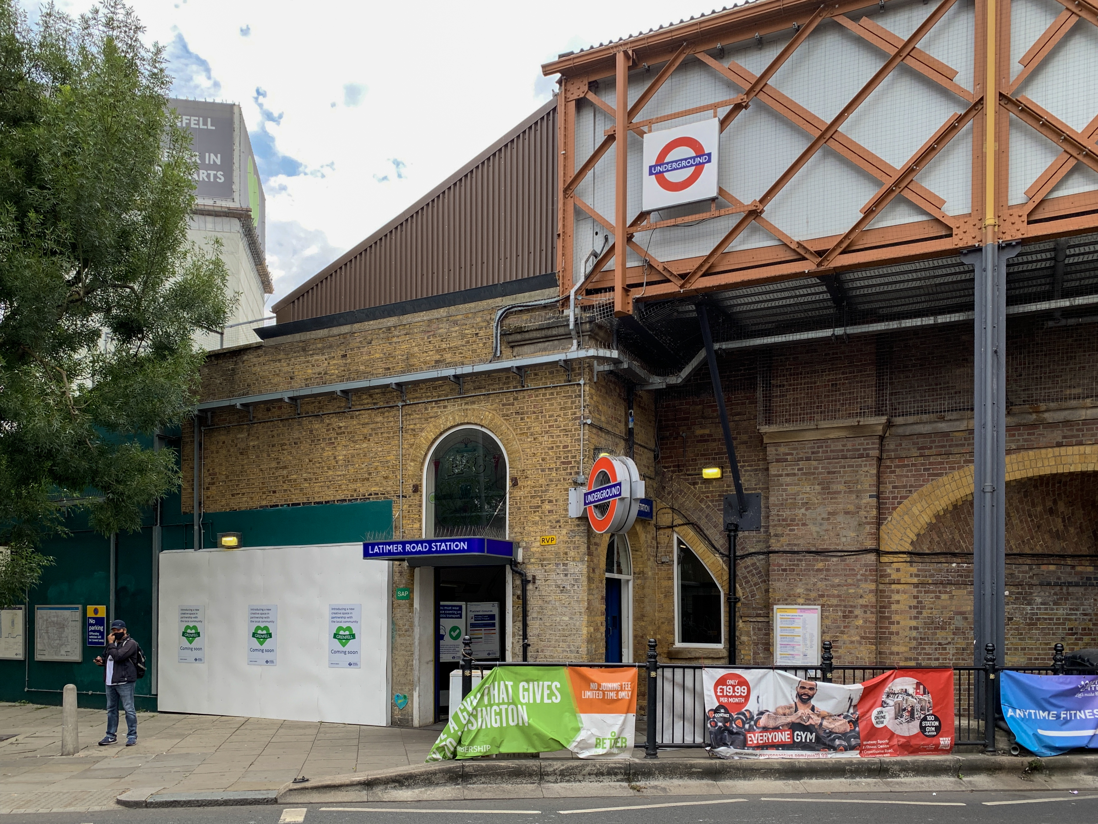 Entrance to Latimer Road station. Taken during my Circle Line Tube Walk.